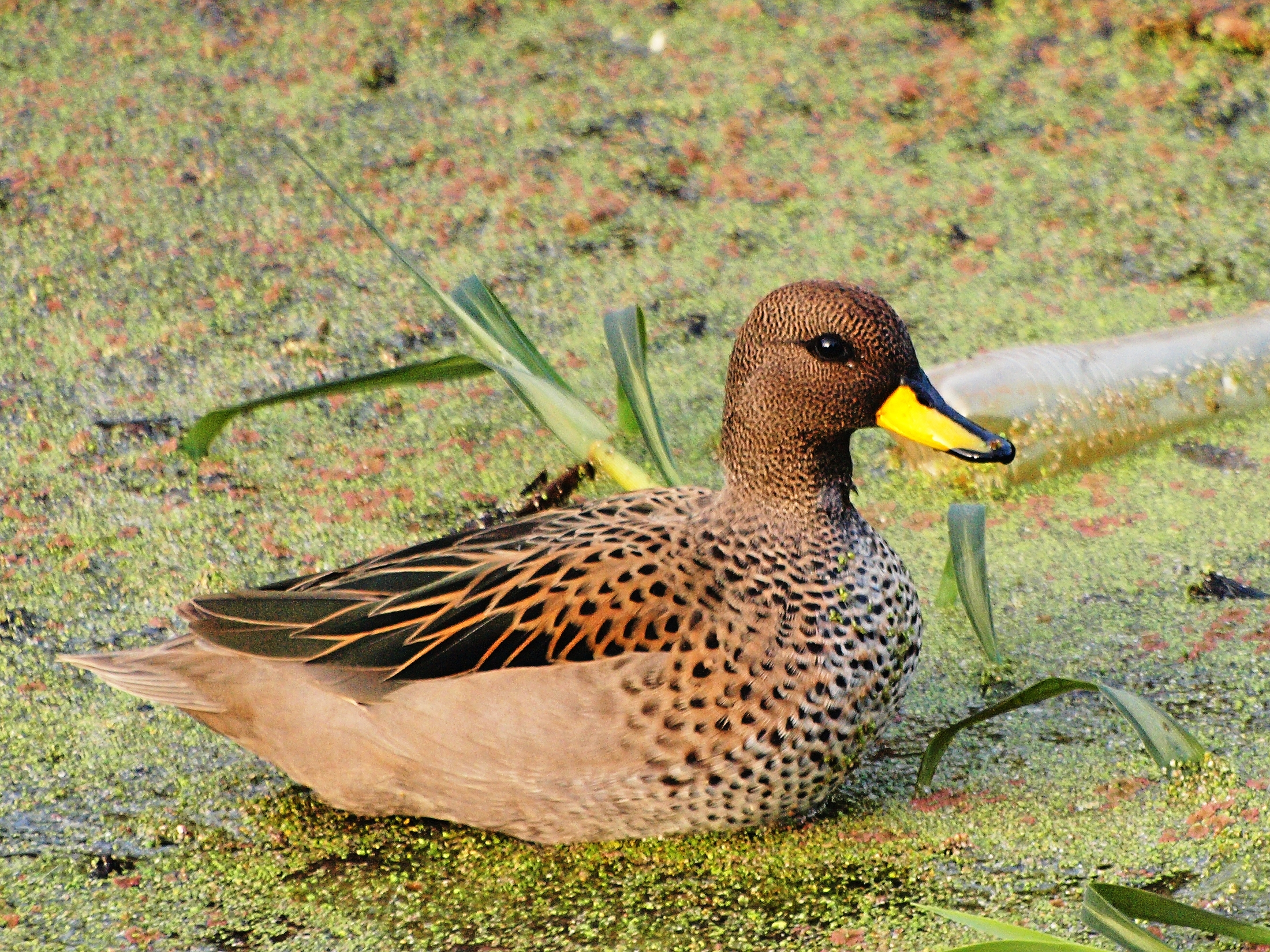 A Yellow-billed Teal in Piñeyro, Buenos Aires, Argentina.